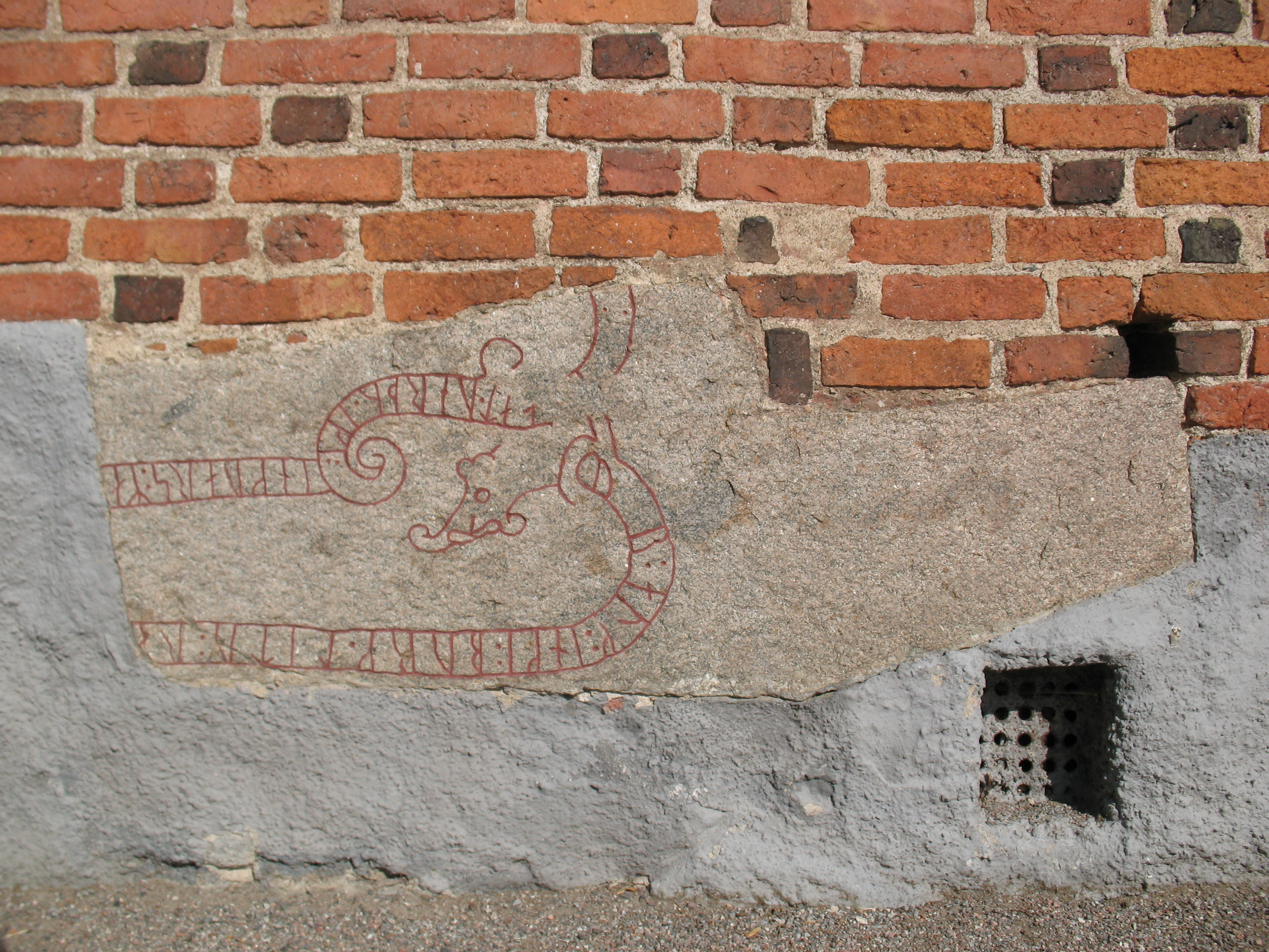 The runestone Sö 277 which is in the wall of Strängnäs Cathedral in Sweden.